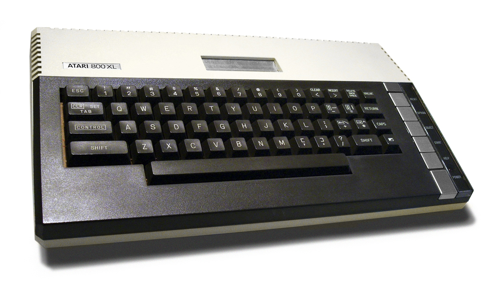 Atari 800XL against white (#ffffff) background